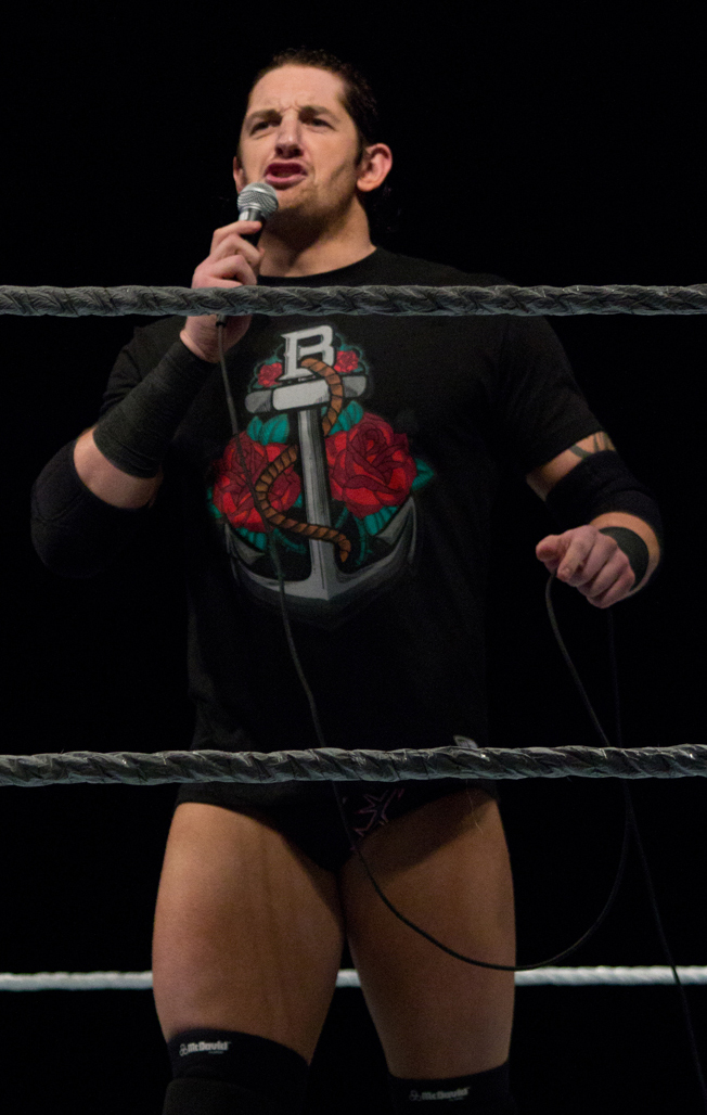 Wade Barrett addresses the crowd. Taken January 7, 2012 during a WWE SmackDown live event in Montgomery, Alabama.